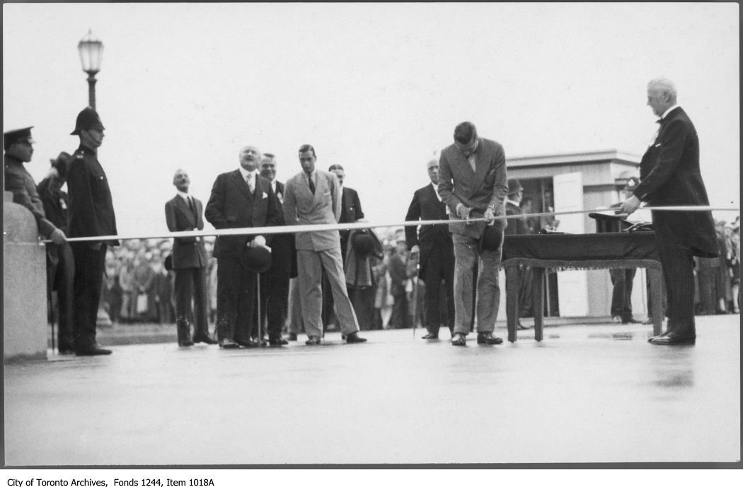 This is a picture of Prince Edward, Prince of Wales cutting the ribbon.